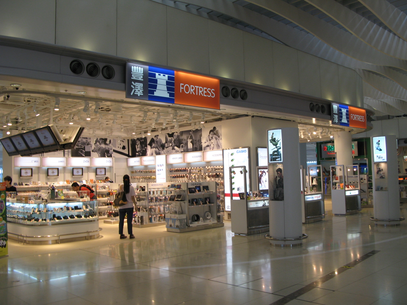 Fortress Store in Sky Plaza